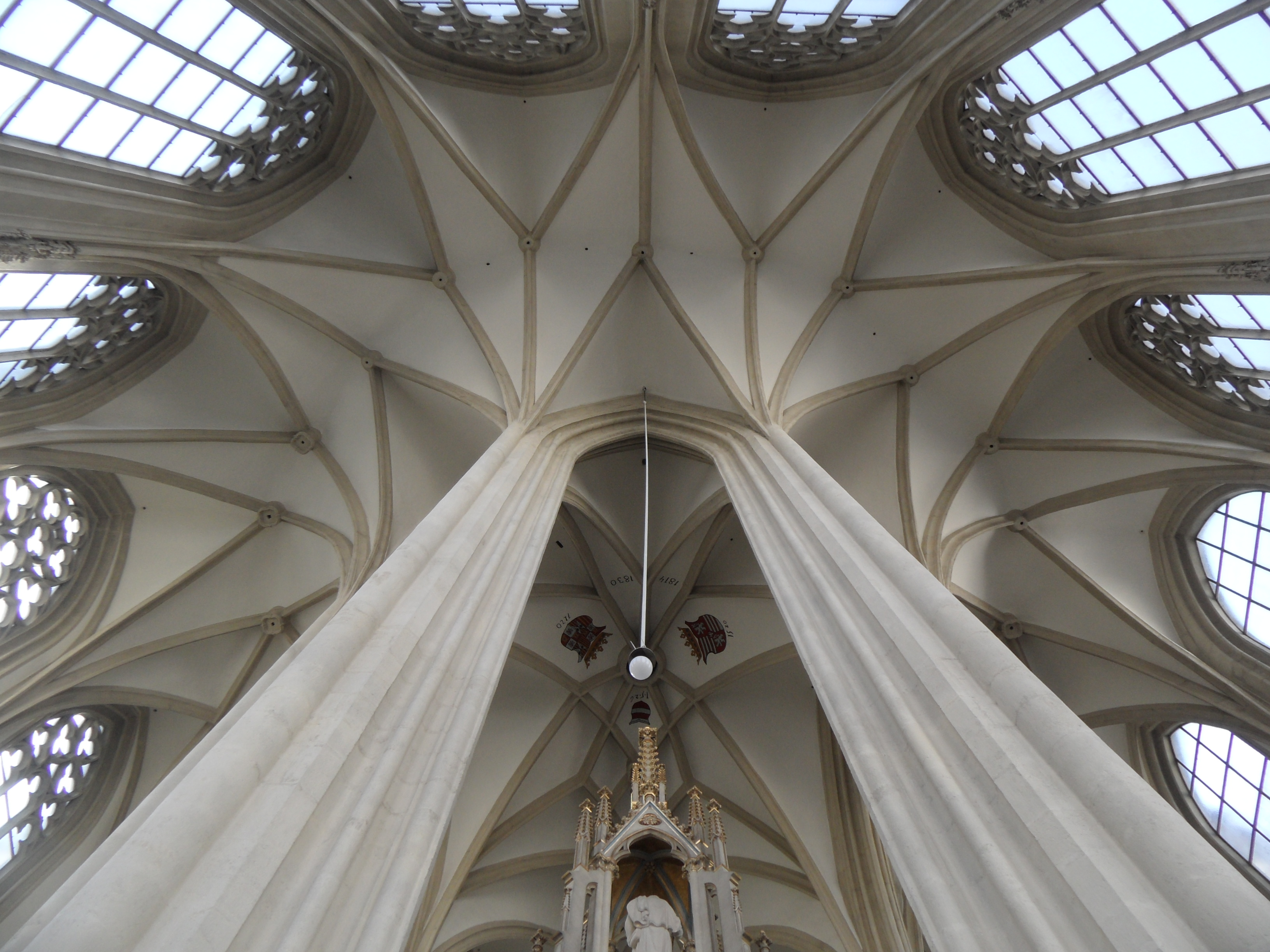 St. Jacob church Brno - vault in ambulatory encircling the choir 15th C.